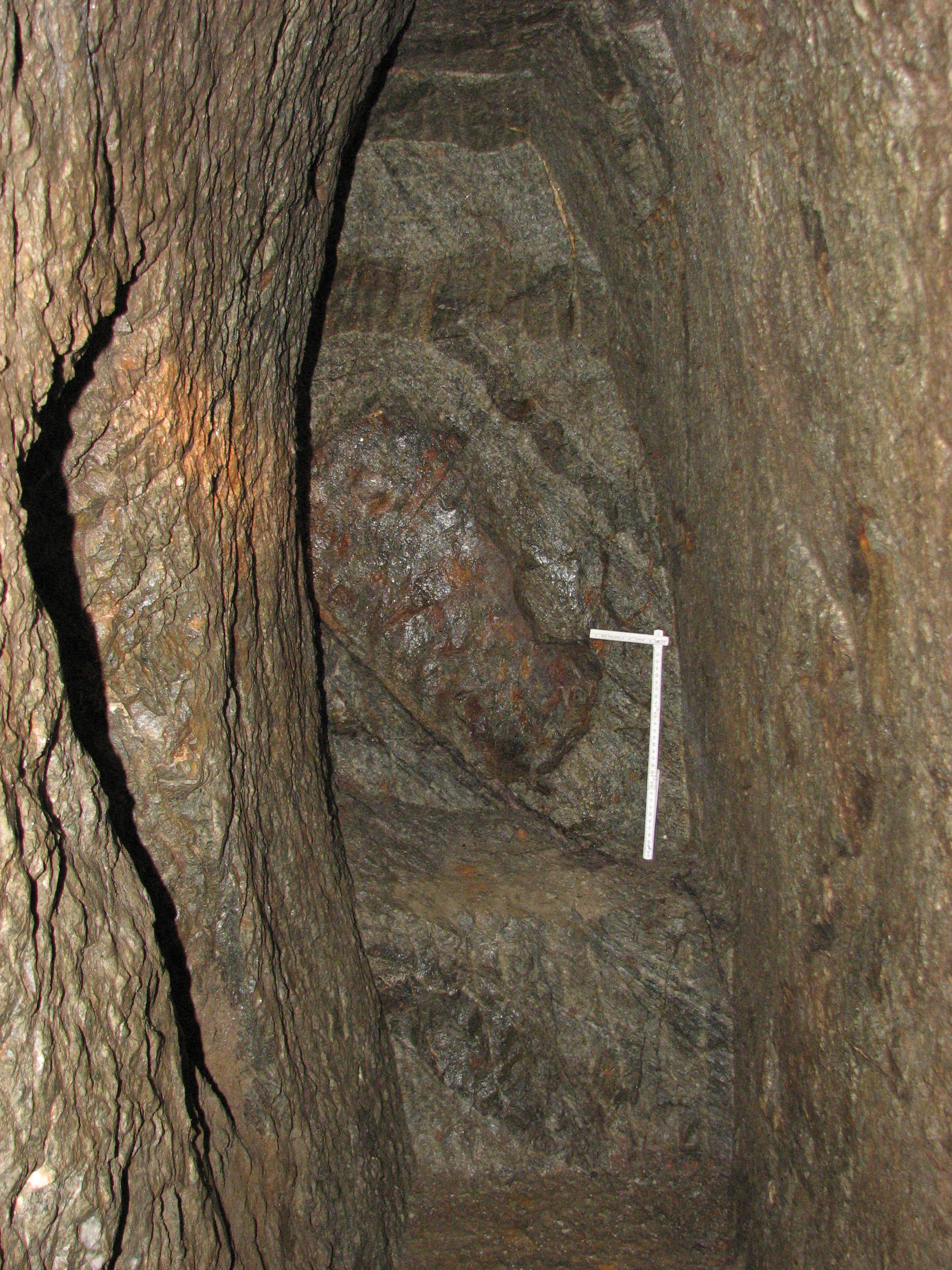 Face of an adit in the mine Gabe Gottes at Ste. Marie aux Mines, Alsace, France. Silver mining. Adit dating around the 16th century. Scale: Bended part of folding rule = 10cm.